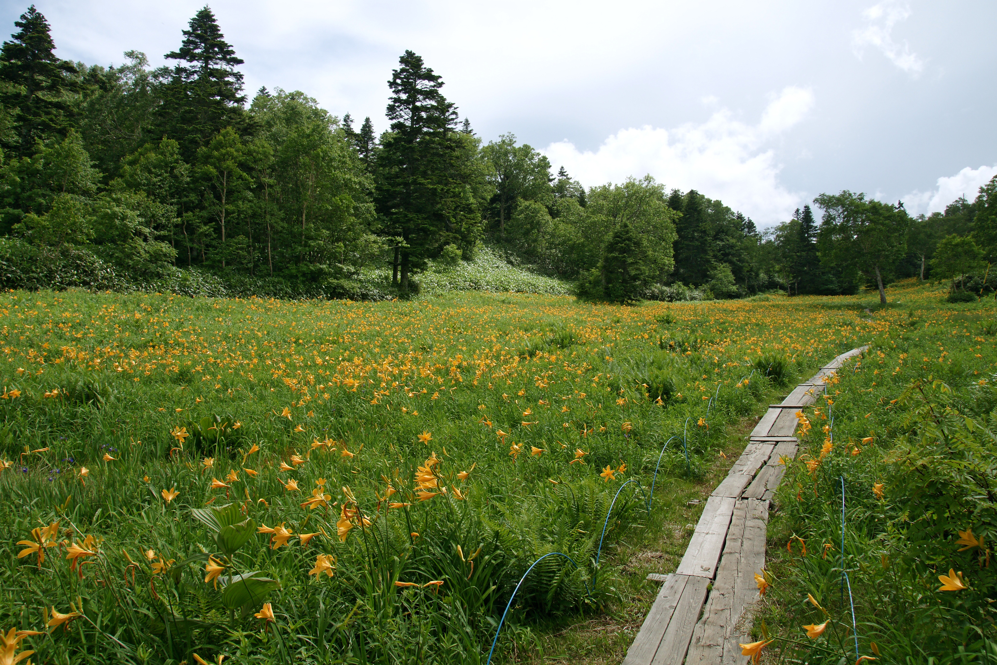 Higashidateyama Kozan-shokubutuen of Shiga Kogen, Yamanouchi, Nagano prefecture, Japan